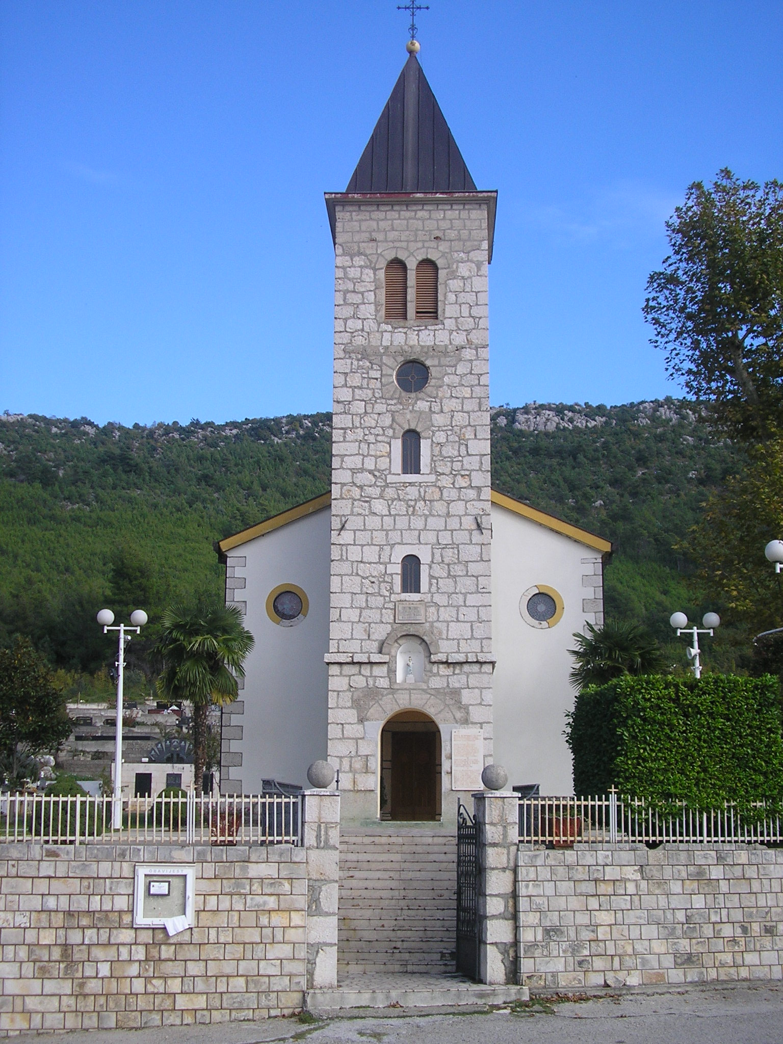 Mary's Assumption church, Trebižat (Čapljina), BiH